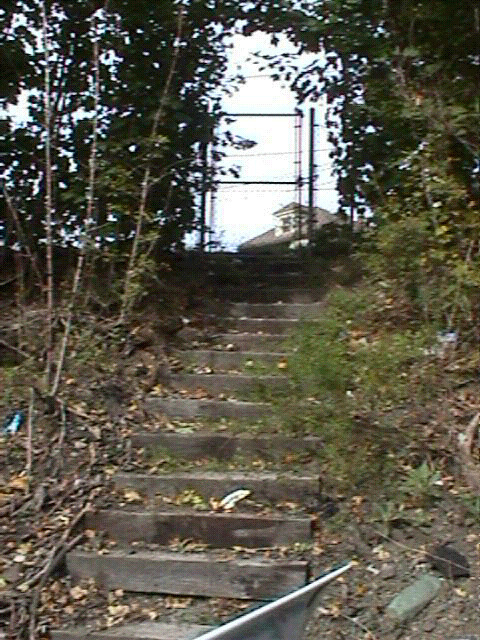 Steps leading to Washington Street from the former outbound station at Mount Bowdoin on the Fairmount Line.